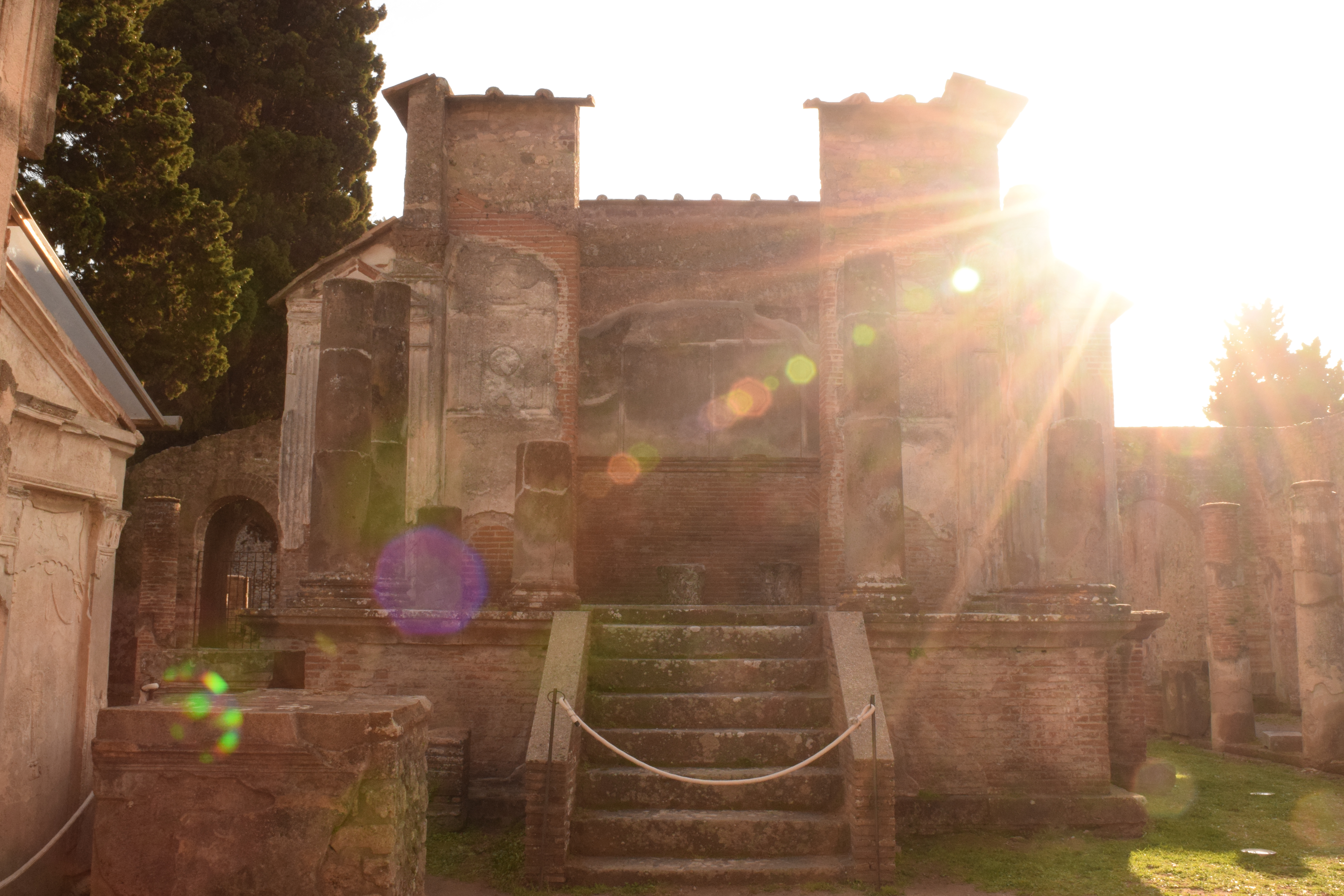 Temple of Isis - Pompeii. Façade of main building at sunset.